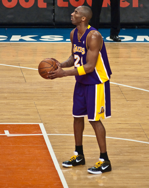 Kobe Bryant 61 point game against the New York Knicks